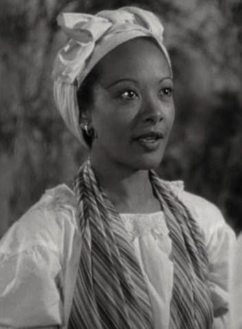 Theresa Harris in I Walked with a Zombie (1943) - trailer (cropped screenshot)